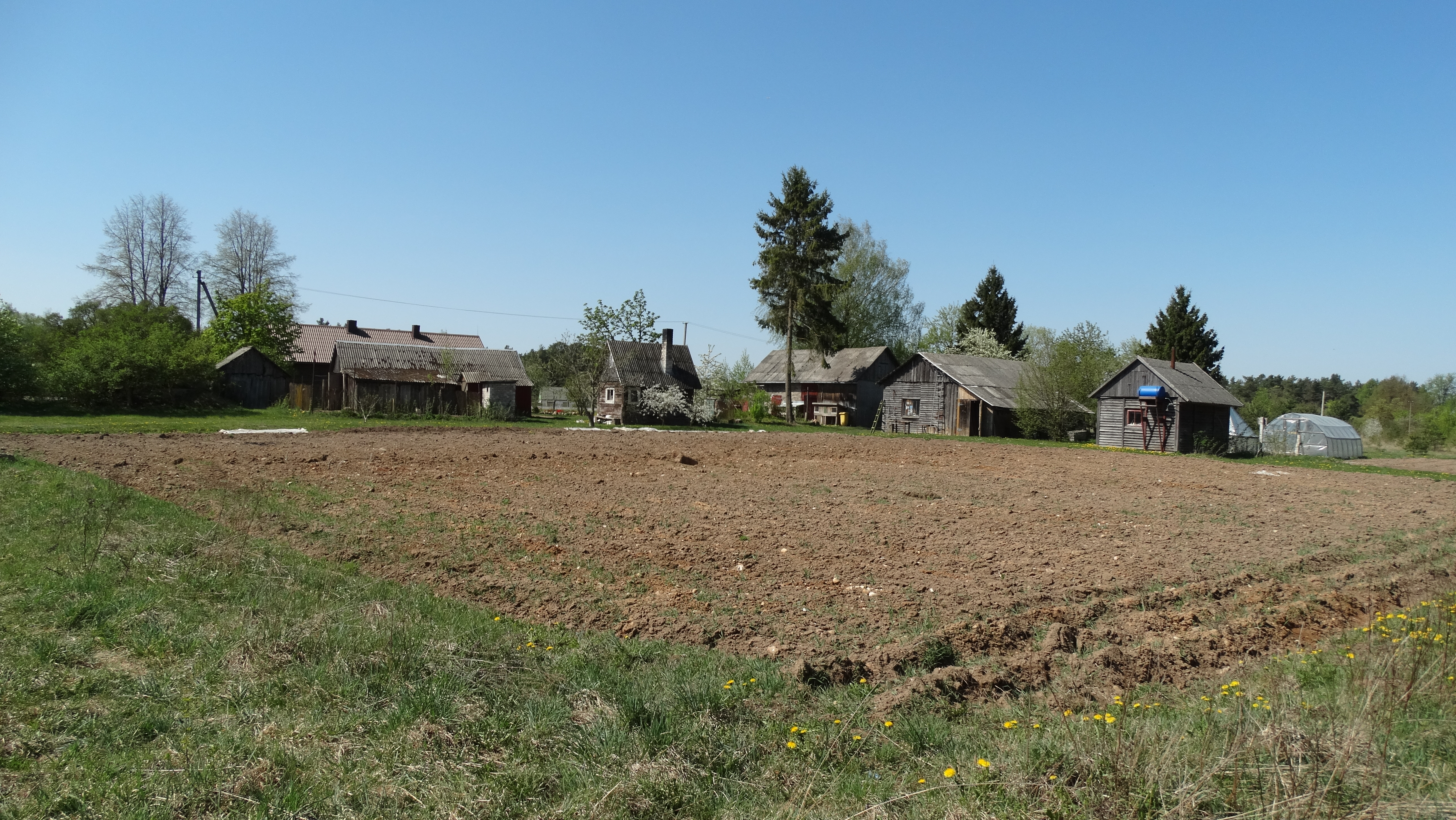 Verduliai (Radviliškis), Lithuania